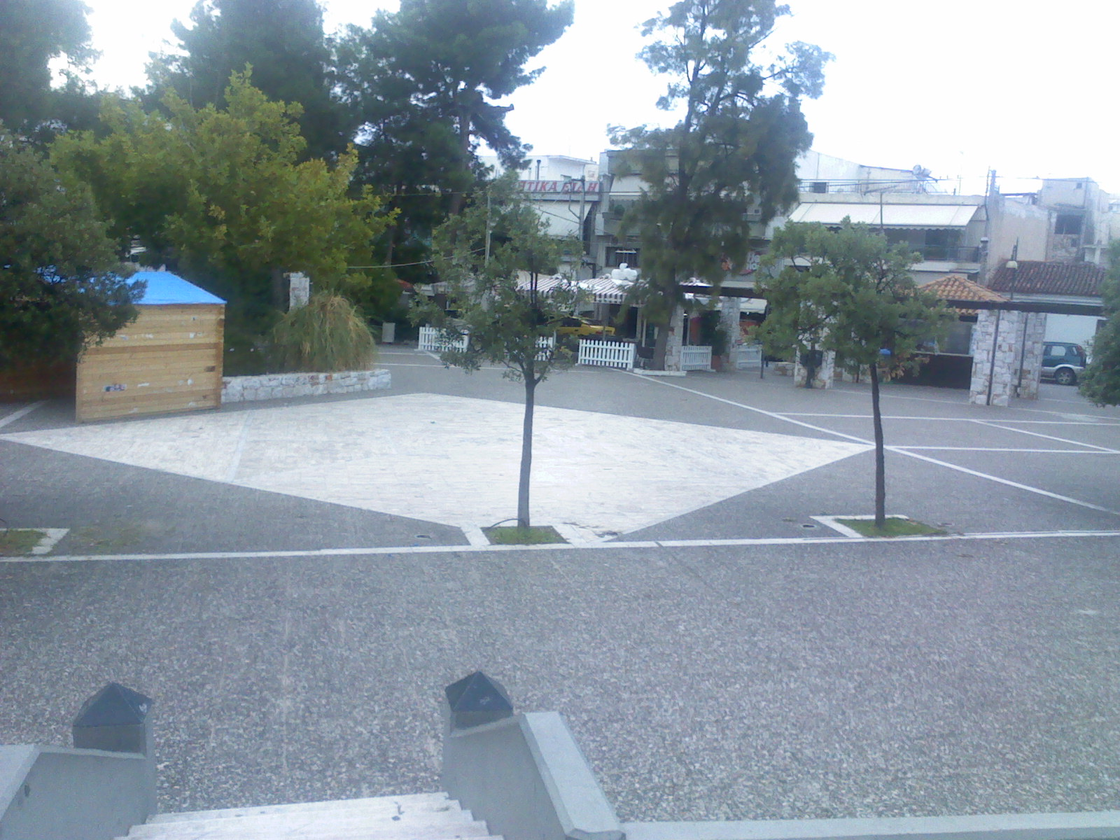 Square Nea Makri